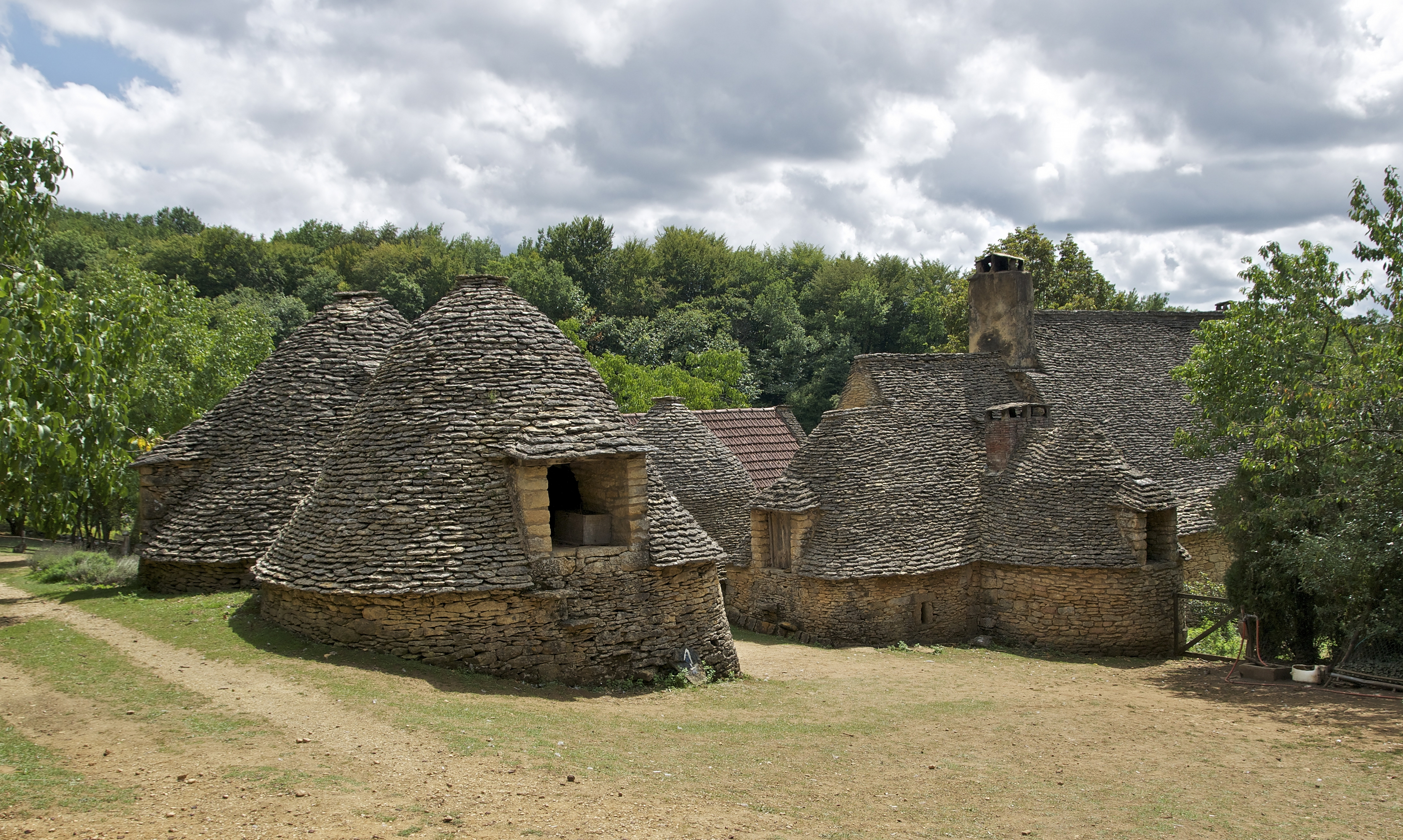 The drystone huts of the site called Cabanes du Breuil, at the place known as Calpalmas, at Saint-André-d'Allas, Dordogne, France.